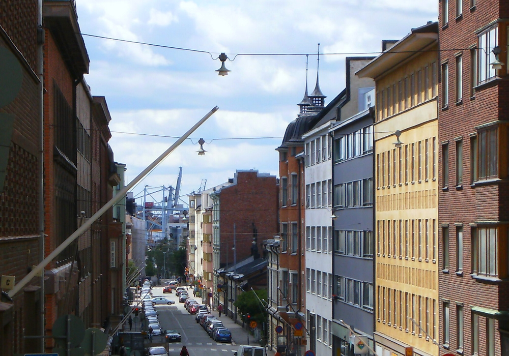 Kalevankatu, Helsinki, Finland, direction south-west